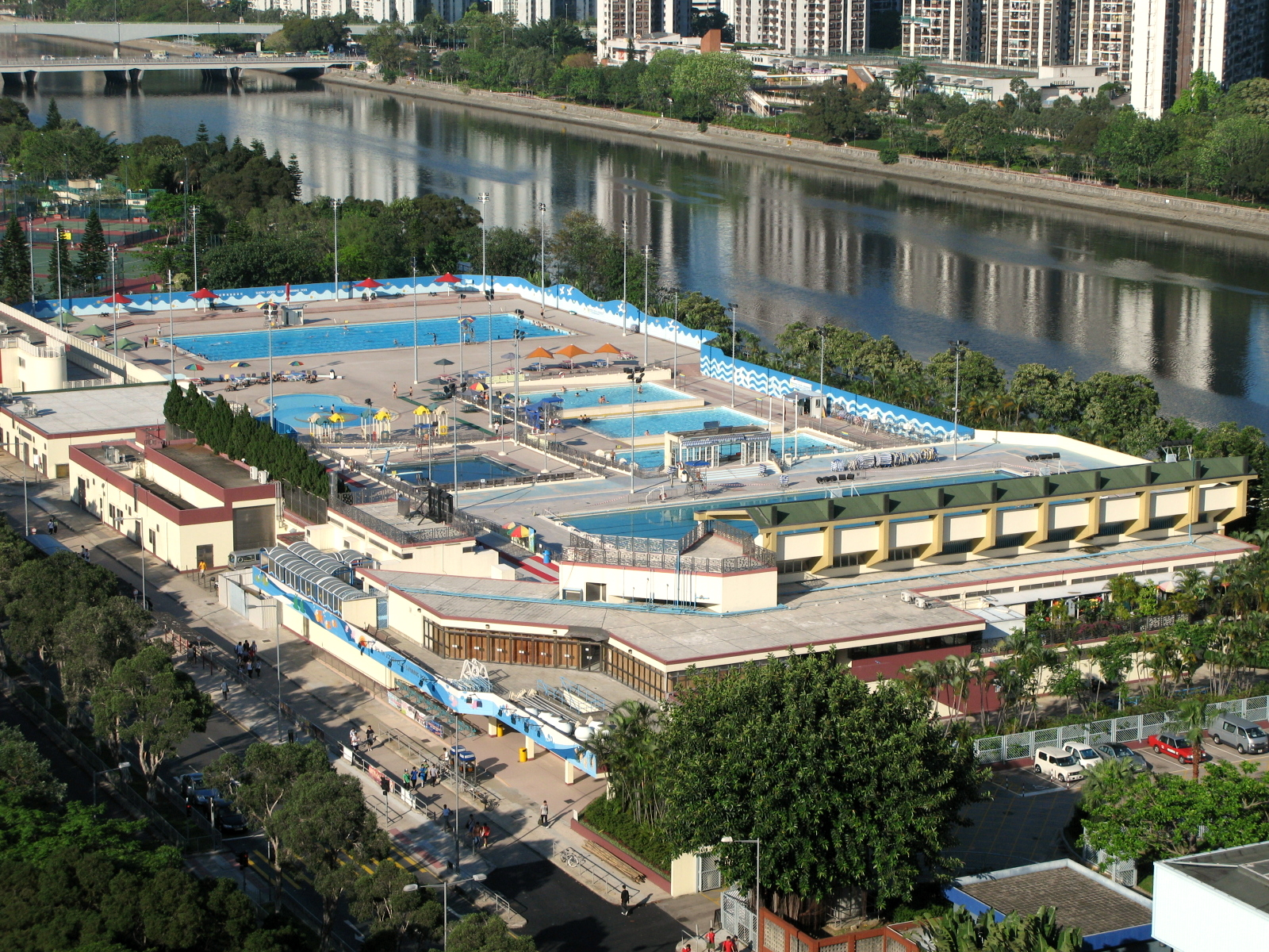 沙田賽馬會游泳池 HK Sha Tin Jockey Club Swimming Pool